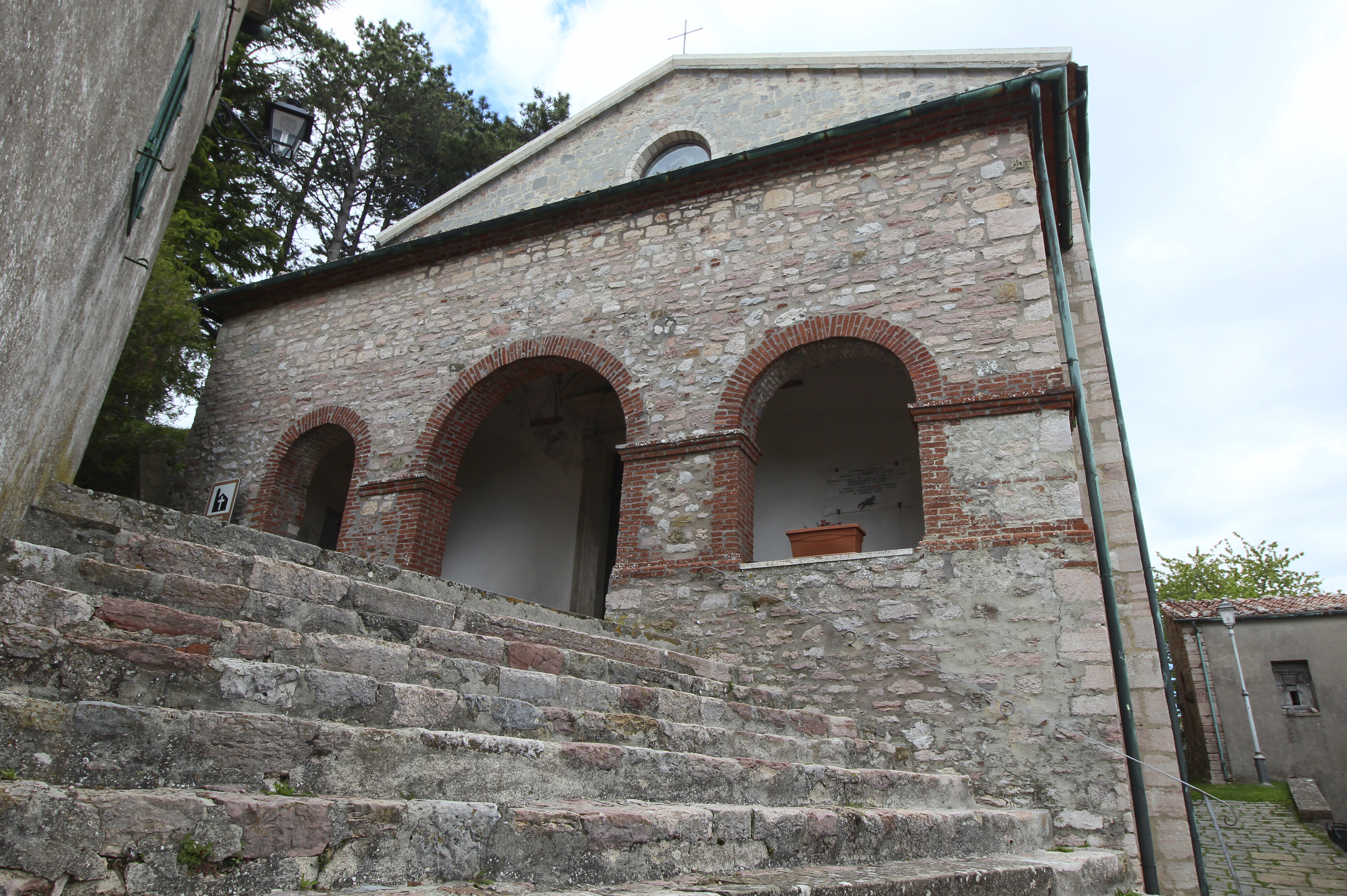 church San Biagio, Gerfalco, hamlet of Montieri, Province of Grosseto, Tuscany, Italy